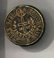 Amvrosius Kassaras Seal